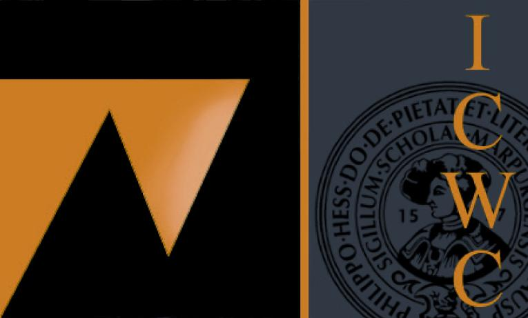 The logo of the International Center for Research and Documentation of War Crimes Trials (ICWC) in Marburg.